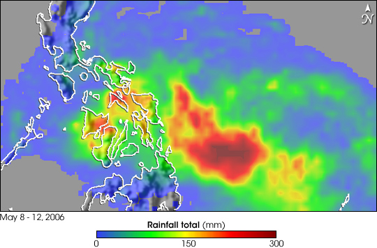 Typhoon Chanchu (known as Caloy in the Philippines) brought strong winds and heavy rains to the central Philippines as the storm passed through the mid-section of the country. This image shows rainfall totals around the Philippines from May 8-12, 2006, based on data collected by the Topical Rainfall Measuring Mission (TRMM) as Typhoon Chanchu approached and crossed the island chain. In particular, it shows the changing patterns of light and heavy rain as the storm system approached the islands. The storm’s most dramatically heavy rain fell offshore, when the storm was particularly intense, but rains decreased as the typhoon crossed the islands. The image was compiled from the TRMM-based, near-real time Multi-satellite Precipitation Analysis (MPA) at the NASA Goddard Space Flight Center, which monitors rainfall over the global tropics. Though not a particularly powerful storm, Chanchu was responsible for 8 reported deaths as of May 14, 2006, six of which occurred when a boat capsized while traveling between islands, according to news reports. Chanchu became a tropical depression on May 9, 2006, east of the main southern island, Mindanao. The system then organized into a tropical storm and moved west-northwest before making landfall on the island of Samar in the central Philippines on the evening of May 11 as a Category 1 typhoon. Chanchu regained strength, briefly becoming a Category 2 storm, as it passed between the central islands before hitting Mindoro Island and weakening somewhat. TRMM is a joint mission between NASA and the Japanese space agency, JAXA. Since its launch in 1997, TRMM has provided valuable information on tropical storms. With an active radar and a passive microwave sensor, TRMM can peer into the core of these storms and relay details on storm structure and location to forecasters.